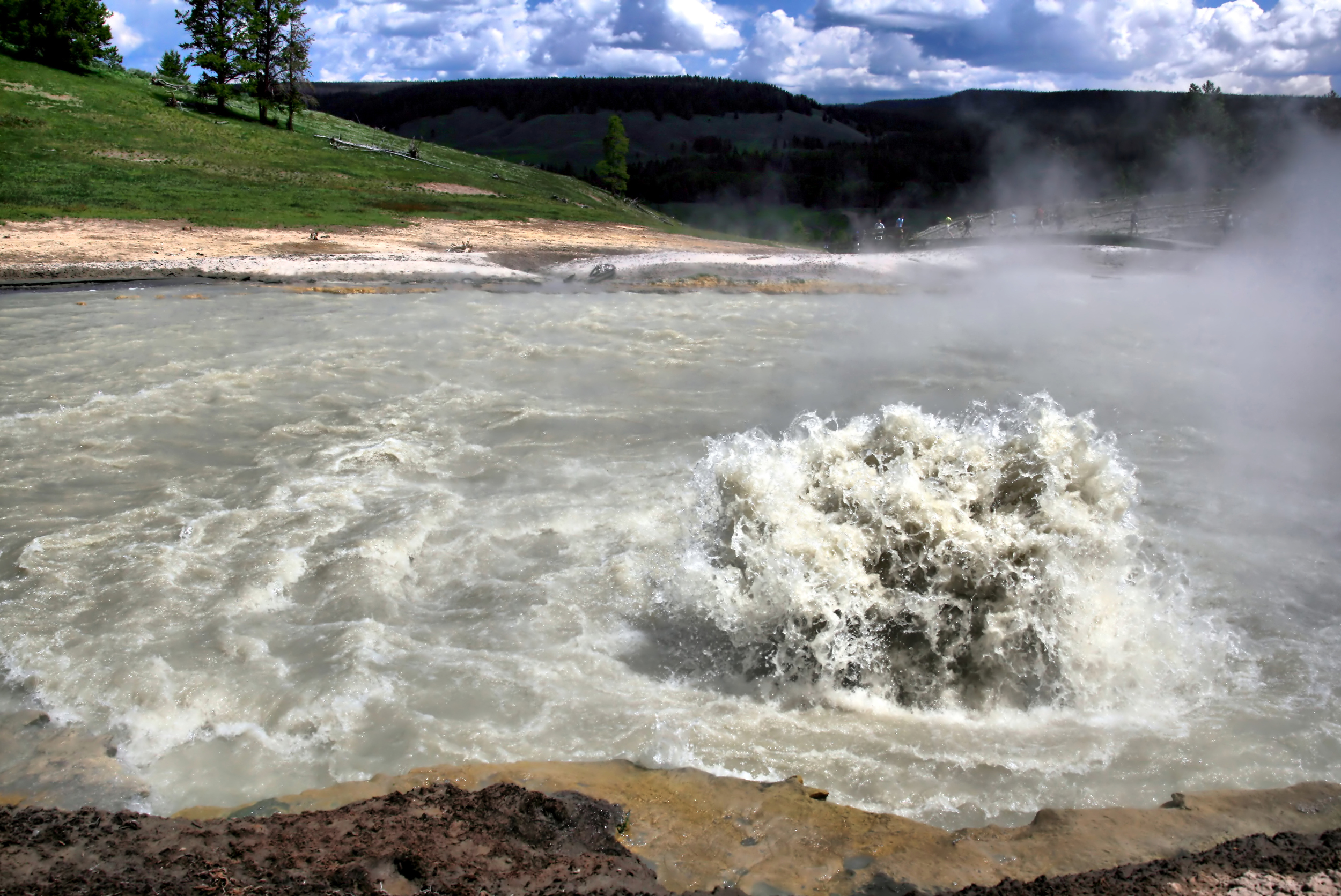 Boiling lake in Yellowstone National Park.Once Churning Caldron was a cool spring covered with colorful mats of microorganisms. This all has changed after earthquakes in 1978-79 superheated the water and killed the microbes. This once cool pool now averages 164°F and in 1996, it began throwing water 3-5 feet.